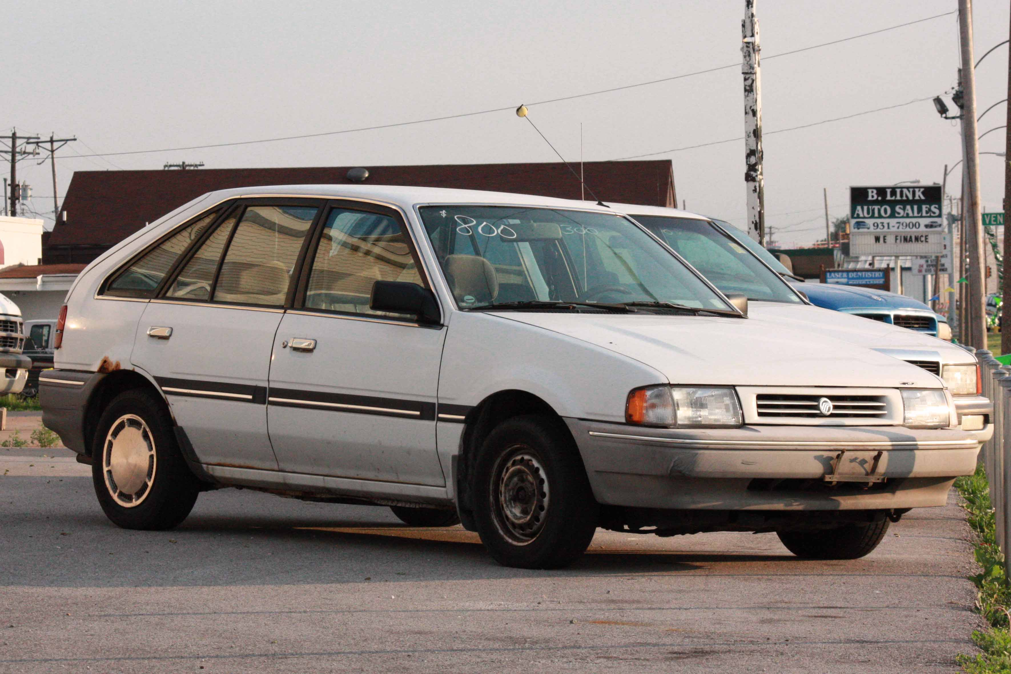 1987-1989 Mercury Tracer 5-door.